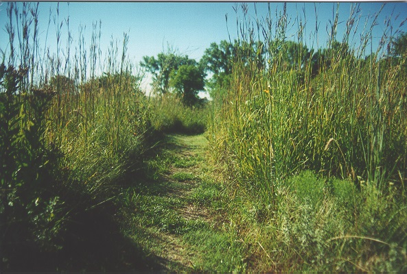 Trail through Tallgrass Prairie National Preserve in Strong City, KS